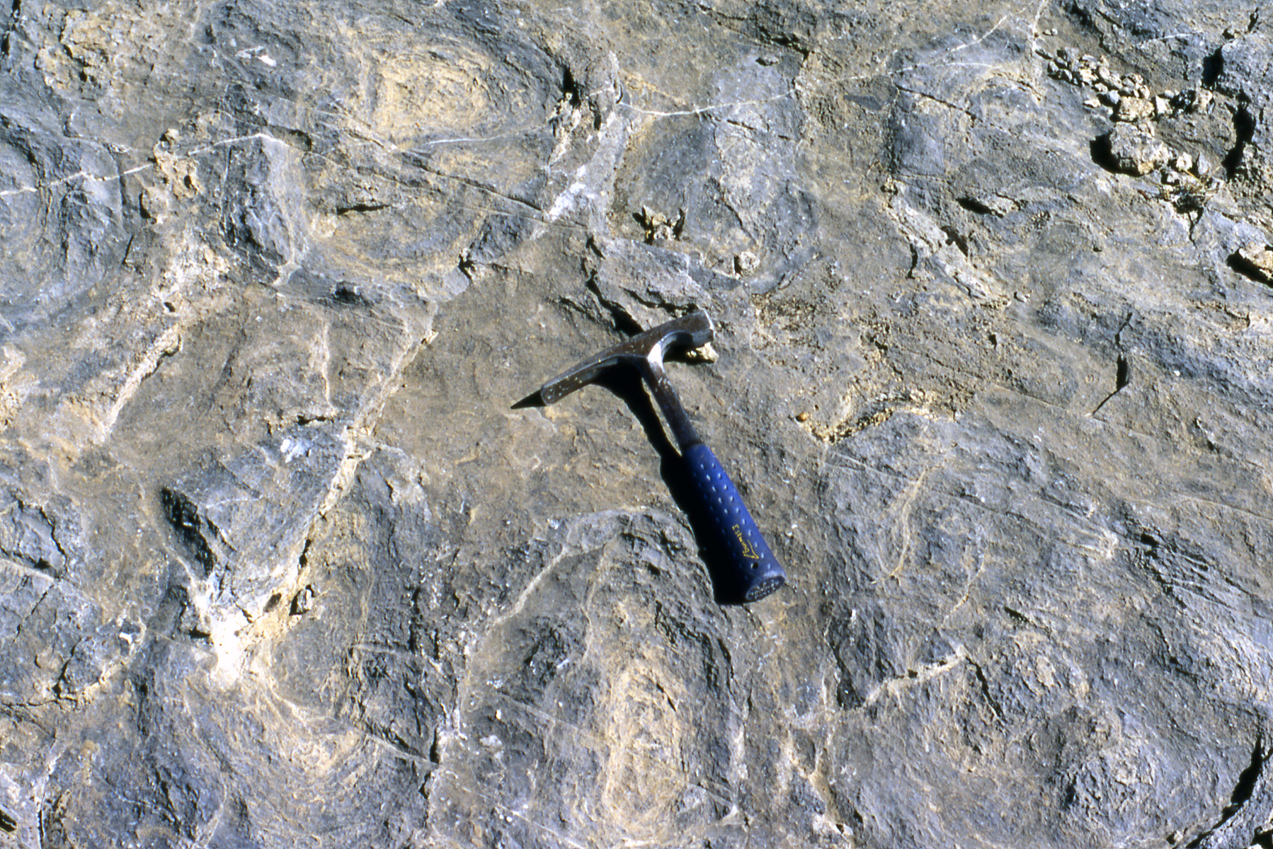 Stromatolitic limestones in the Cambrian of Utah, USA. (oblique bedding plane view; geology hammer for scale) Stromatolites are layered structures built up by mats of cyanobacteria (= blue-green bacteria, often incorrectly called “blue-green algae”). Stromatolites are fairly common in portions of the shallow-water marine & nonmarine fossil record, but they also occur in a few modern localities (e.g., Shark Bay along coastal Western Australia). Stratigraphy: Big Horse Limestone Member, Orr Formation, upper Marjuman Stage; almost uppermost Middle Cambrian Locality: ridge crest of Orr Ridge, eastern flanks of the House Range, Millard County, western Utah, USA (vicinity of 39˚ 11' 56.37" North latitude, 113˚ 18' 47.91" West longitude)